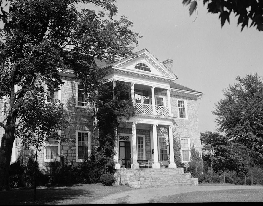 Annefield, State Route 633 vicinity, Boyce vicinity (Clarke, Virginia) cropped This file comes from the Historic American Buildings Survey (HABS), Historic American Engineering Record (HAER) or Historic American Landscapes Survey (HALS). These are programs of the National Park Service established for the purpose of documenting historic places. Records consist of measured drawings, archival photographs, and written reports. When reusing please credit: Library of Congress, Prints & Photographs Division, VA,22-BERVI.V,1-2 This tag does not indicate the copyright status of the attached work. A normal copyright tag is still required. See Commons:Licensing for more information. This work is in the public domain in the United States because it is a work prepared by an officer or employee of the United States Government as part of that person’s official duties under the terms of Title 17, Chapter 1, Section 105 of the US Code. See Copyright. Note: This only applies to original works of the Federal Government and not to the work of any individual U.S. state, territory, commonwealth, county, municipality, or any other subdivision. This template also does not apply to postage stamp designs published by the United States Postal Service since 1978. (See § 313.6(C)(1) of Compendium of U.S. Copyright Office Practices). It also does not apply to certain US coins; see The US Mint Terms of Use. This file has been identified as being free of known restrictions under copyright law, including all related and neighboring rights. Object location39° 07′ 54″ N, 78° 01′ 29″ W